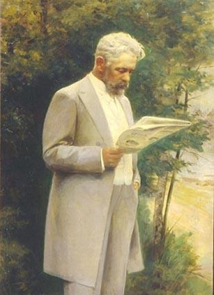 Russian engineer and writer N.G. Garin-Mikhailovsky